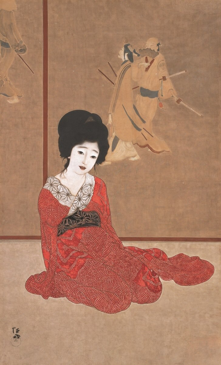 "A Warm Day", Color painting on silk